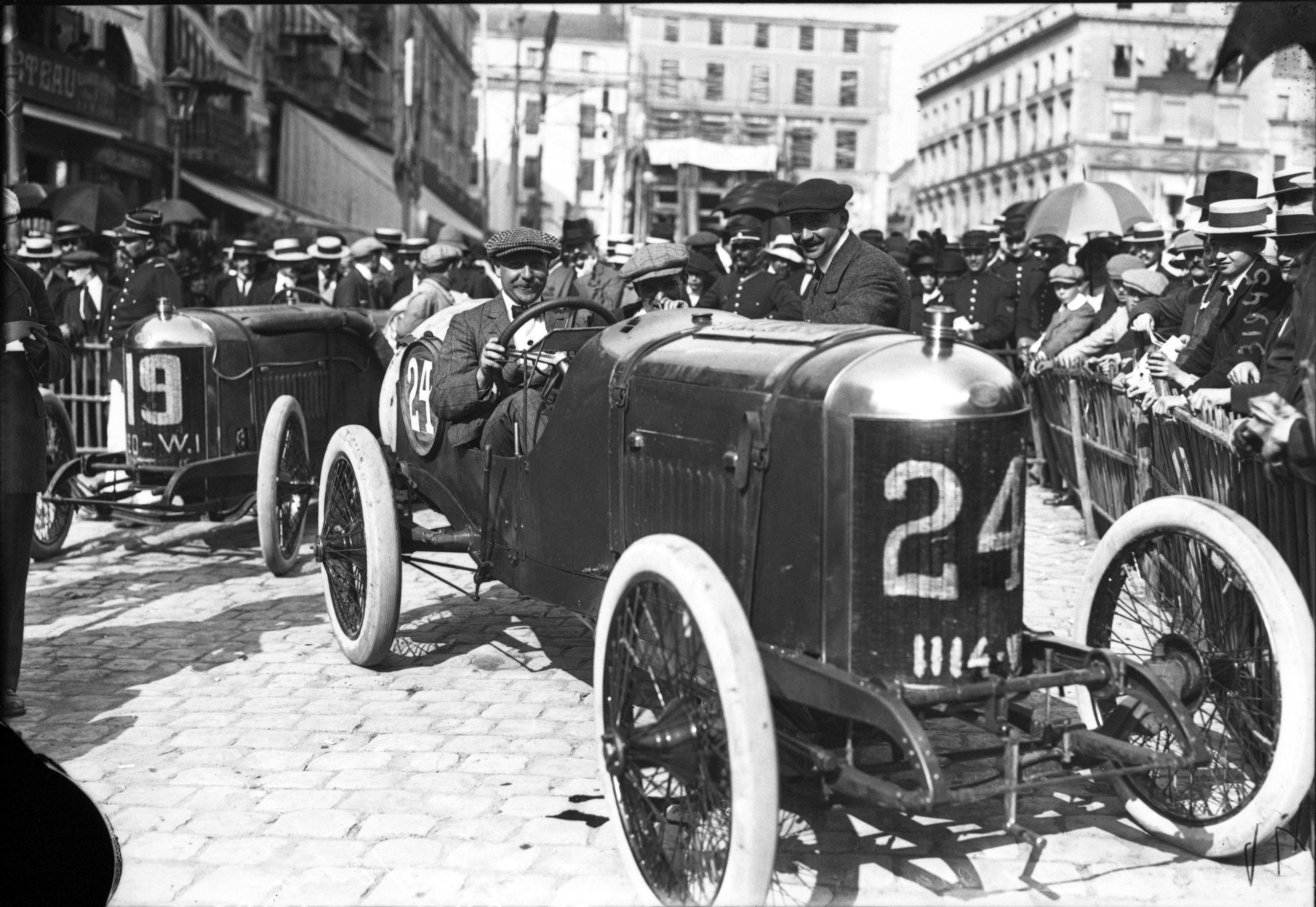 Arthur Duray at the 1913 Grand Prix de France at Le Mans.